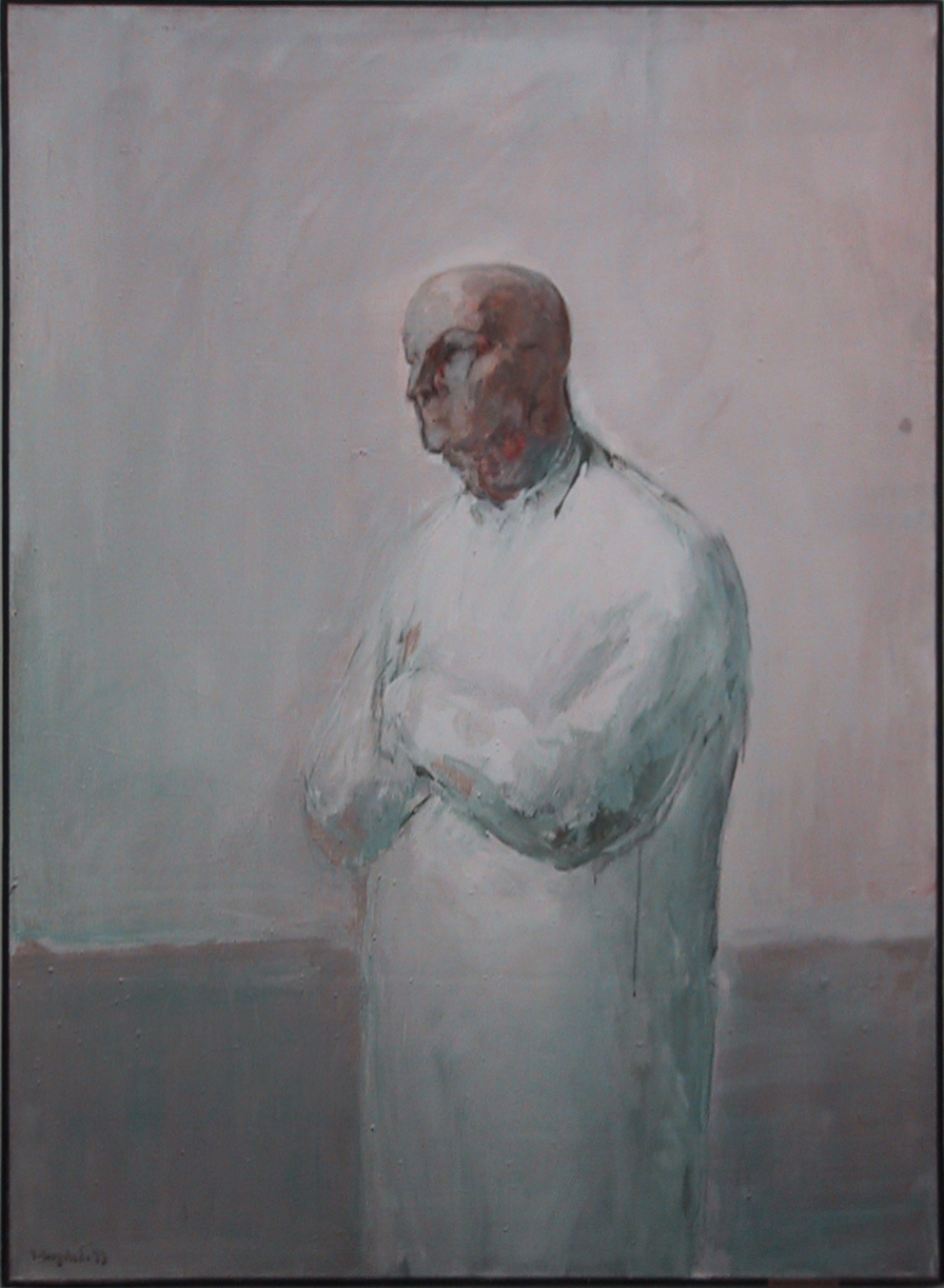 Overlegen (The head physician)